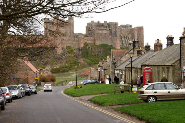 Bamburgh Looking from the village green towards the castle.